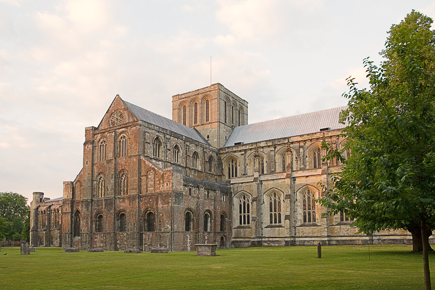 Winchester Cathedral North Transept